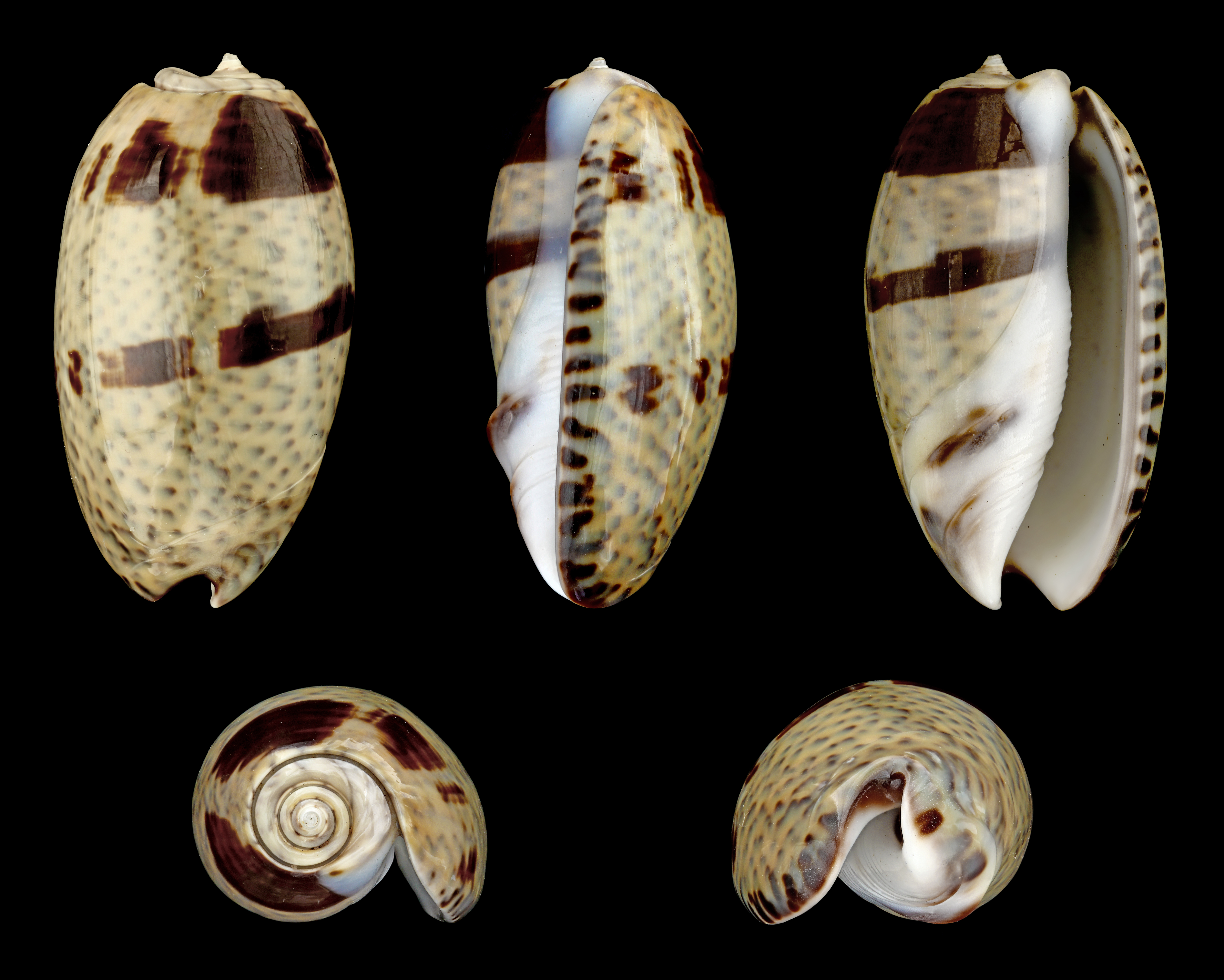 Two-banded Inflated Olive, Length 3.7 cm; Originating from Dar es Salaam, Tanzania; Shell of own collection, therefore not geocoded. Dorsal, lateral (right side), ventral, back, and front view.